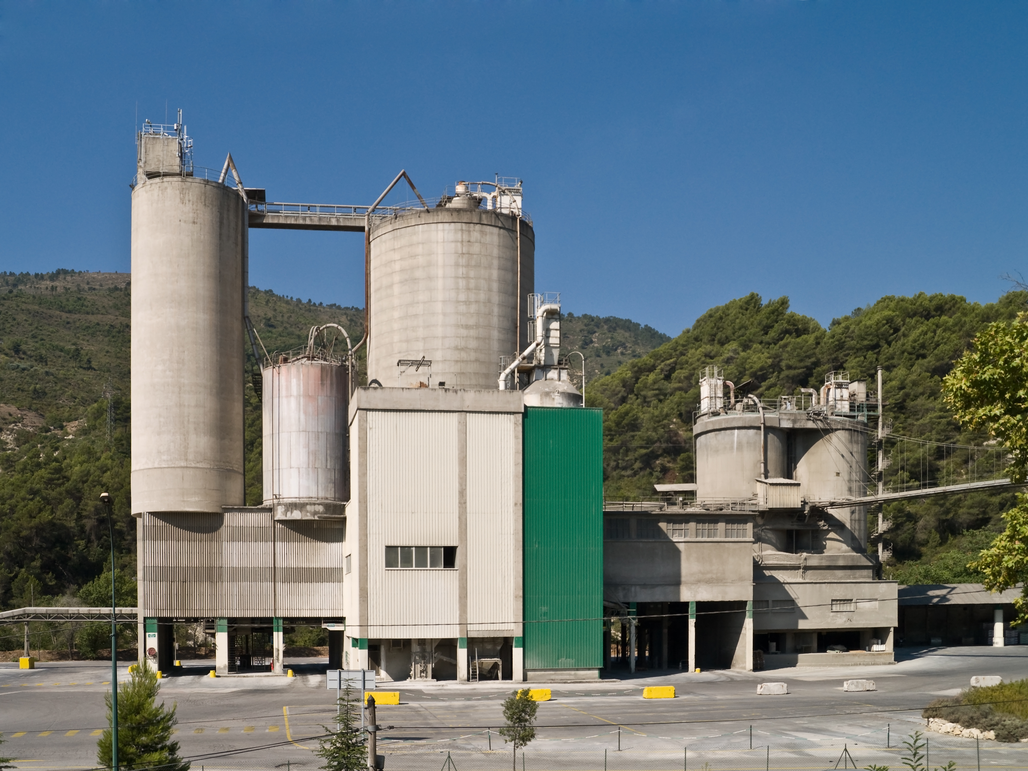 Lafarge cement plant in Contes (Alpes-Maritimes, France)